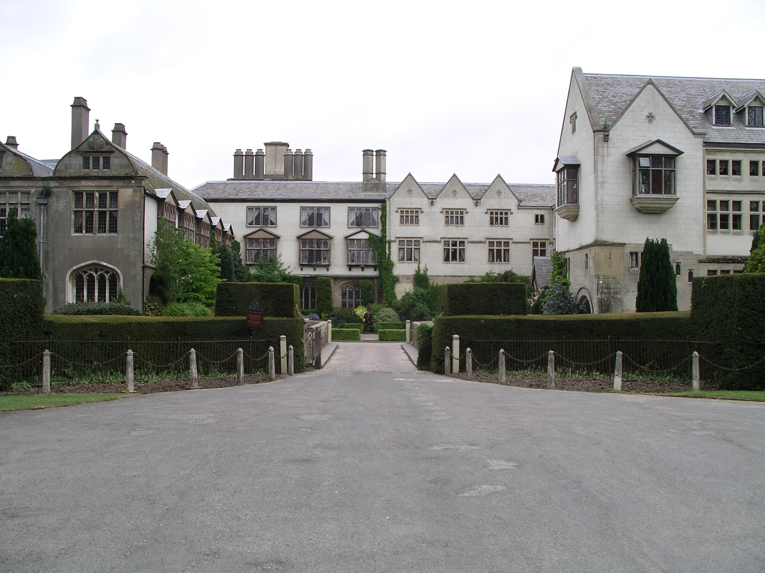 Photo of Coome Abbey, Warwickshire, England: the main building